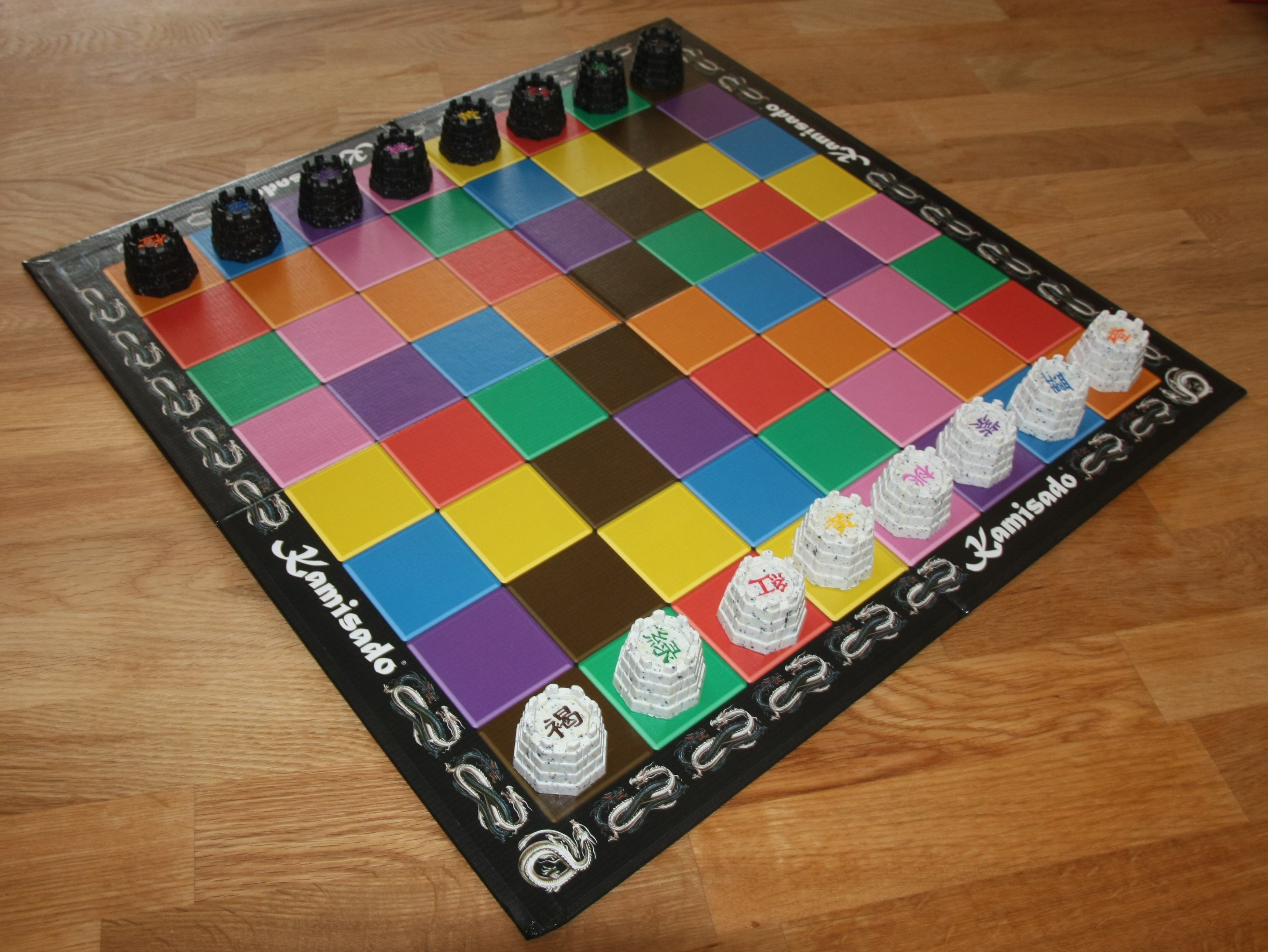 Setup of the board game Kamisado at the beginning